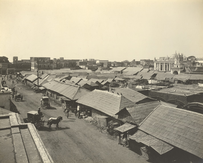 "Photograph taken by Fritz Kapp in 1904 in Dacca (now Dhaka), part of an album of 30 prints from the Curzon Collection. This is a view of the Chowk or the market place in Dhaka, looking across the shop roofs."